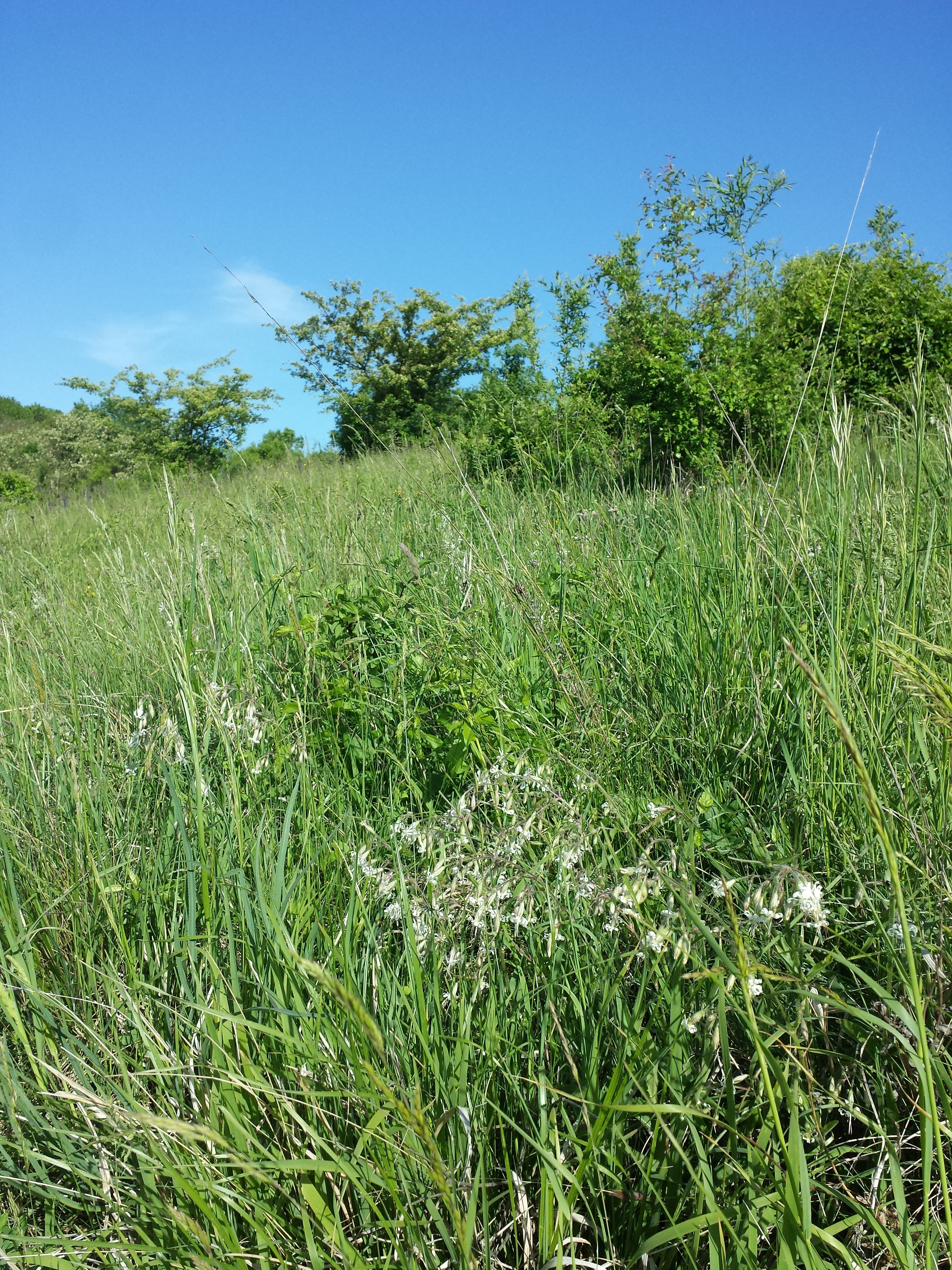 Habitat Taxonym: Silene nutans subsp. nutans ss Fischer et al. EfÖLS 2008 ISBN 978-3-85474-187-9 Location: semi-dry grasslands west to Oberrußbach, district Korneuburg, Lower Austria - ca. 350 m ü. A. Habitat: semi-dry grassland